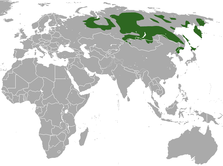 Sable (Martes zibellina) range (green - extant, black - extinct)